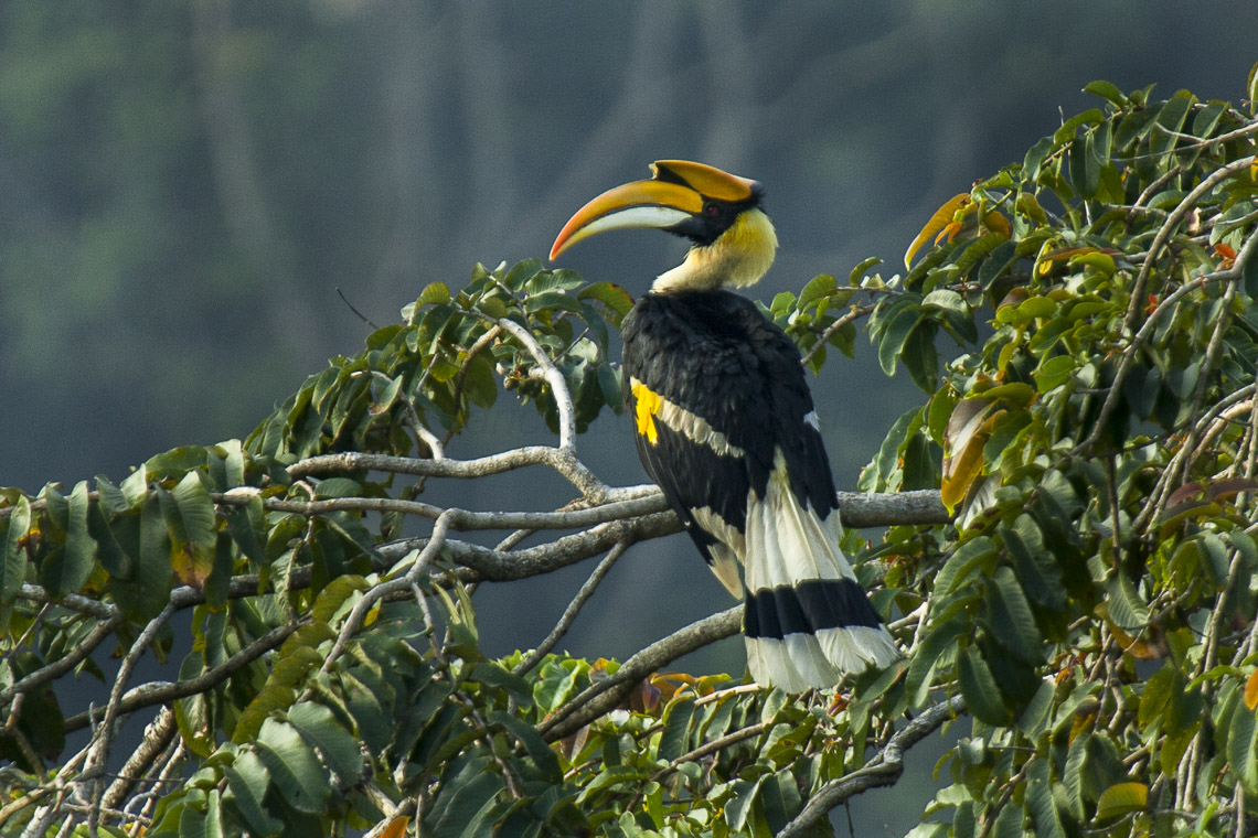 Great Hornbill - Thailand_H8O4713